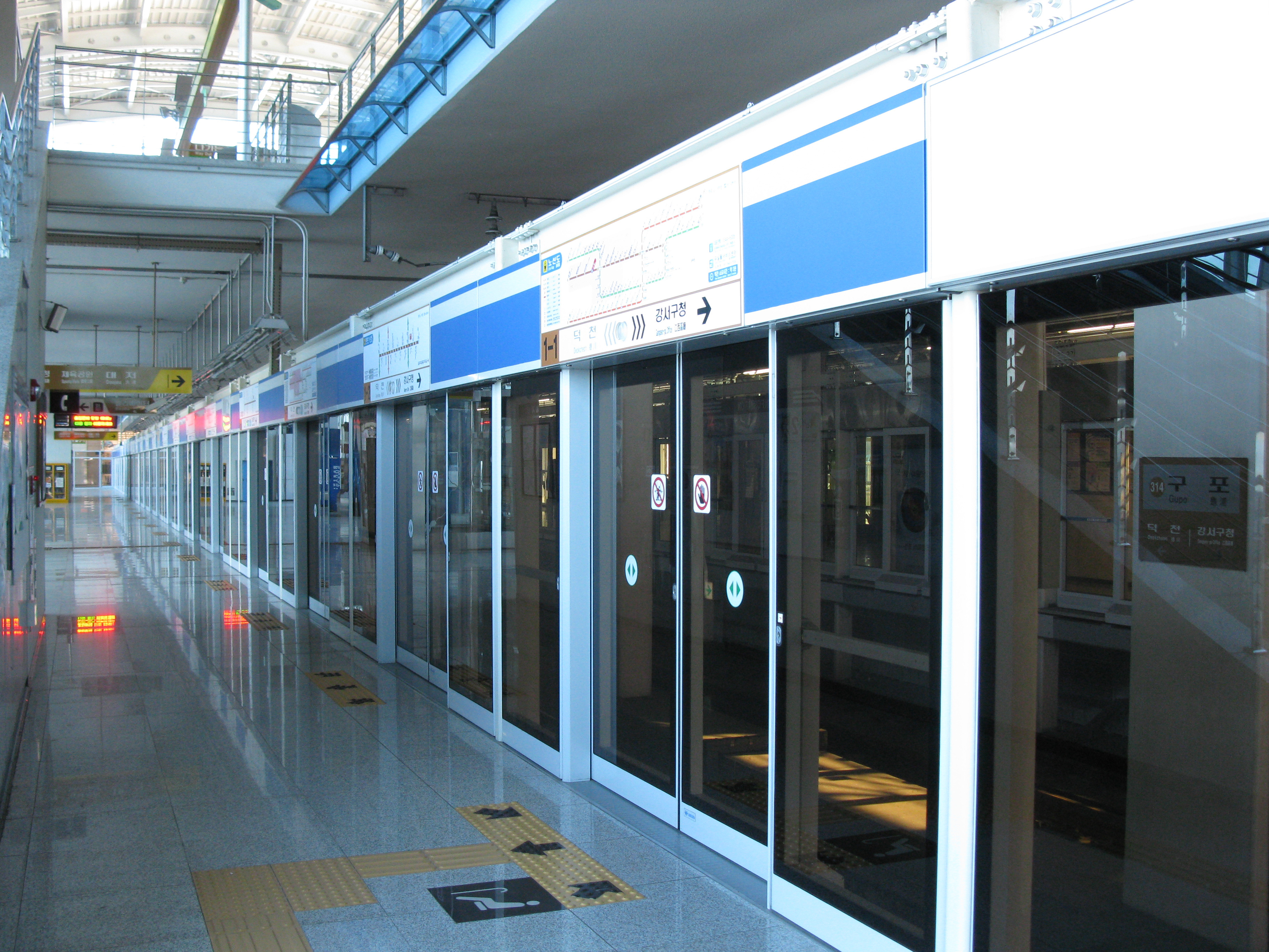 A platform of Gupo Station, Busan Subway Line 3